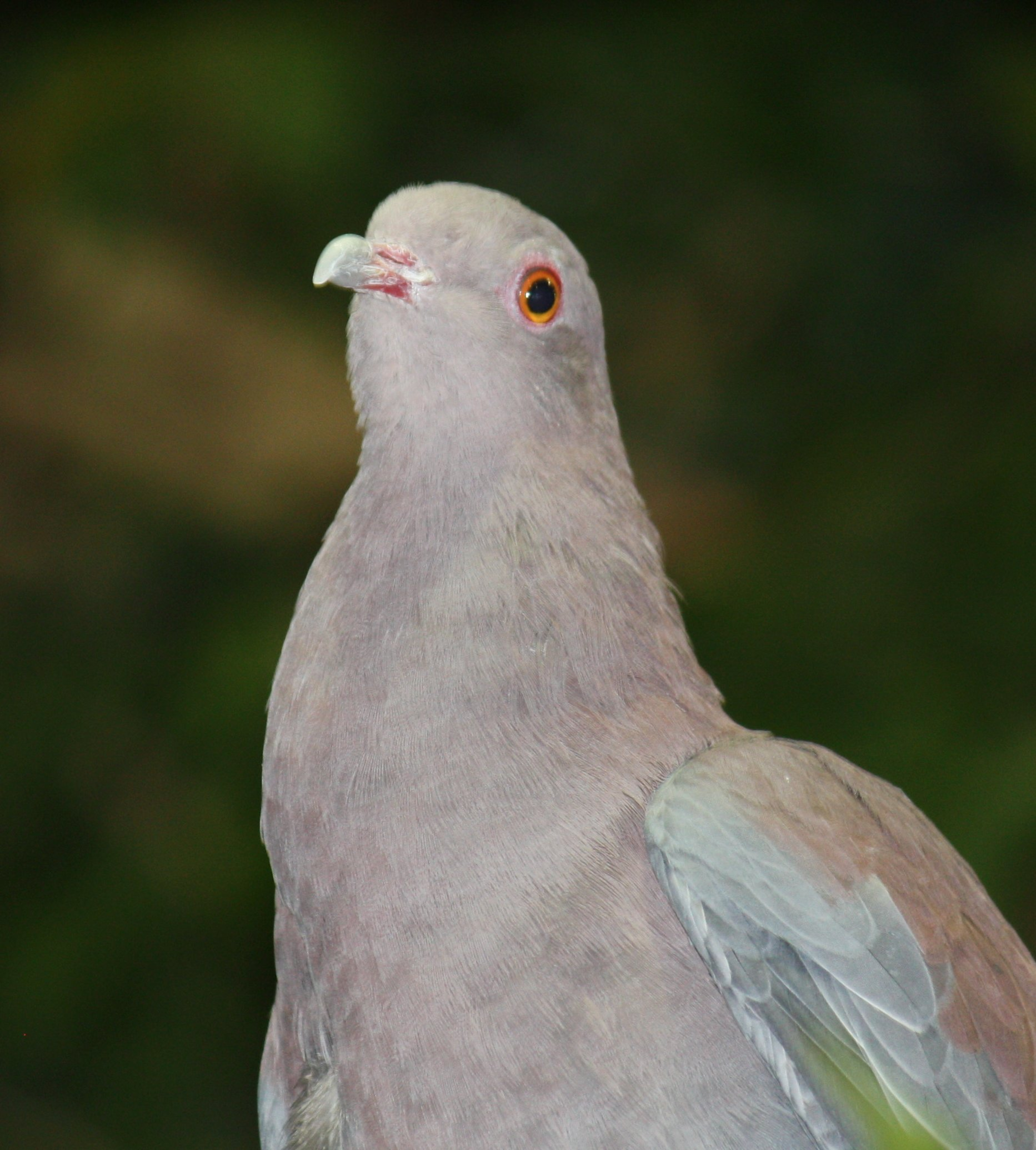 Peruvian Pigeon Patagioenas Oenop at Cincinnati Zoo